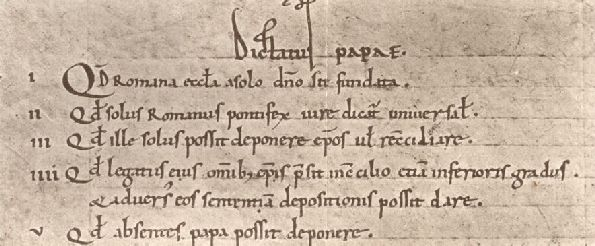 The first lines of the Dictatus Papae, from the original register of pope Gregory VII (Reg. Vat. 2 in the Archivio Segreto Vaticano)